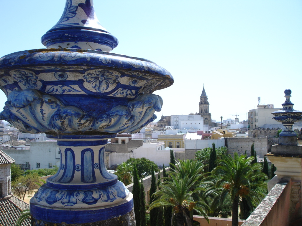 San Miguel church of Jerez de la Frontera from Villavicencio Palace (inside Alcazar), Spain